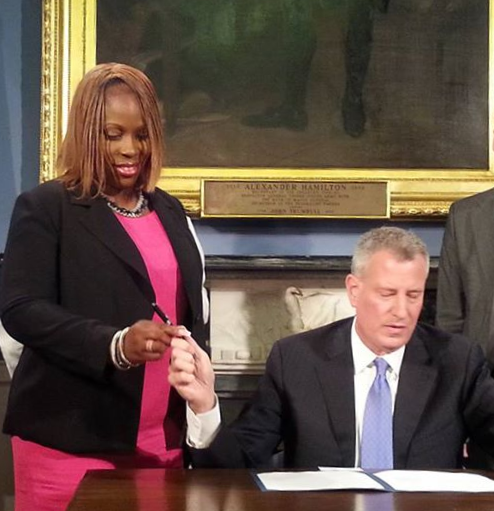 Vanessa L. Gibson with Mayor Bill de Blasio during the Legionnaires Bill Signing